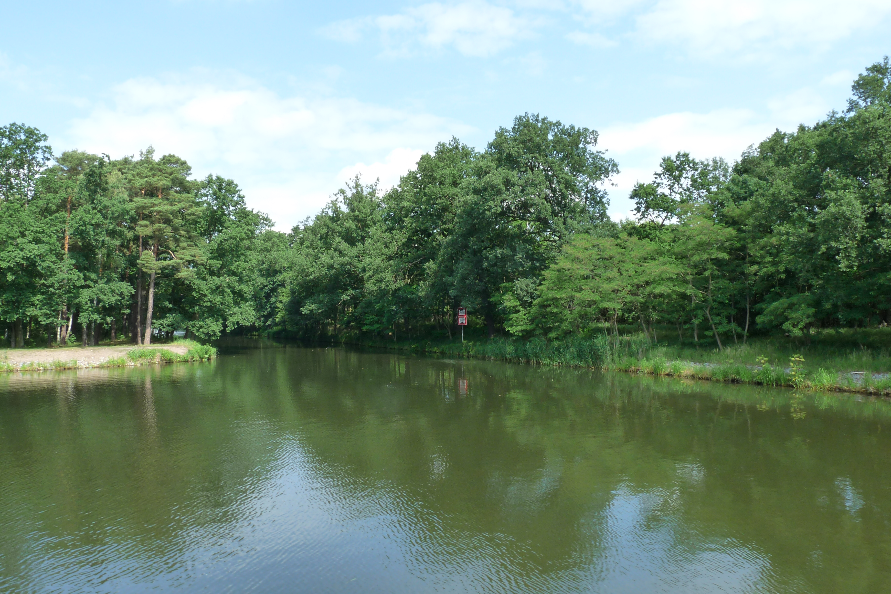 Mouth of an old part of former canal, today named Rossdorfer Altkanal